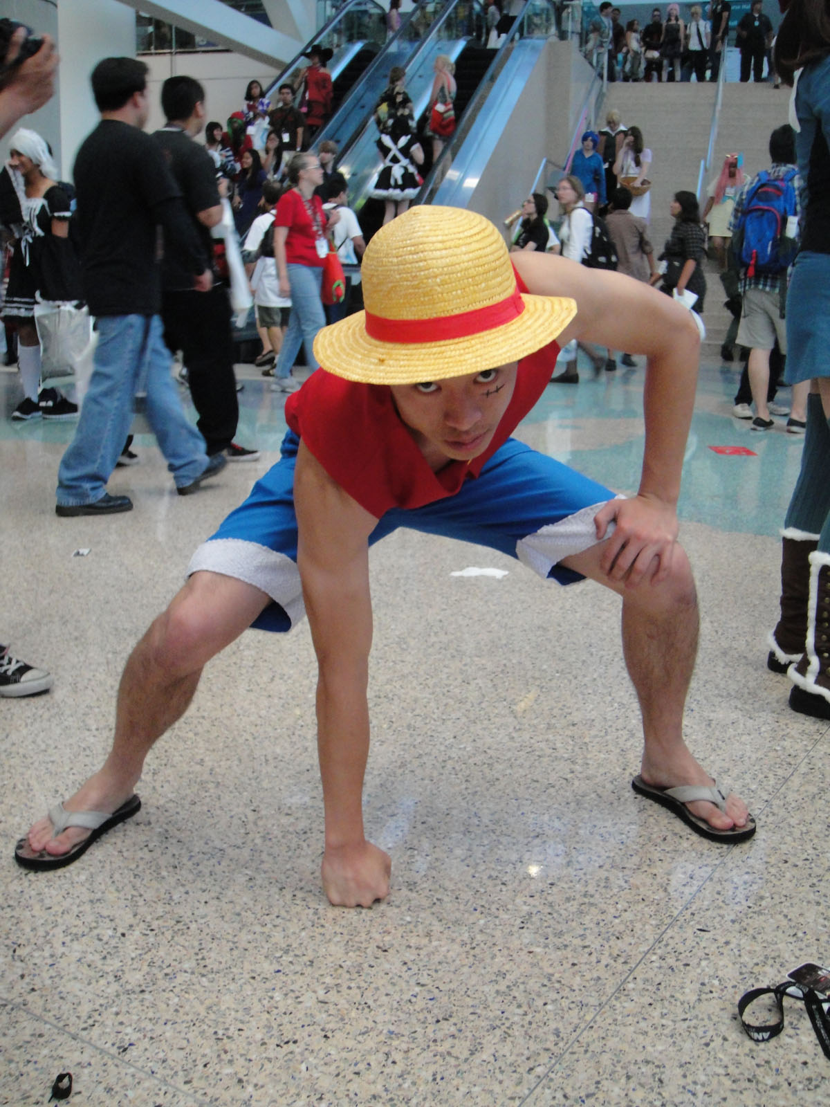 photo 2011 taken by Doug Kline If you're interested in higher resolution versions of my images, contact me via my profile page.